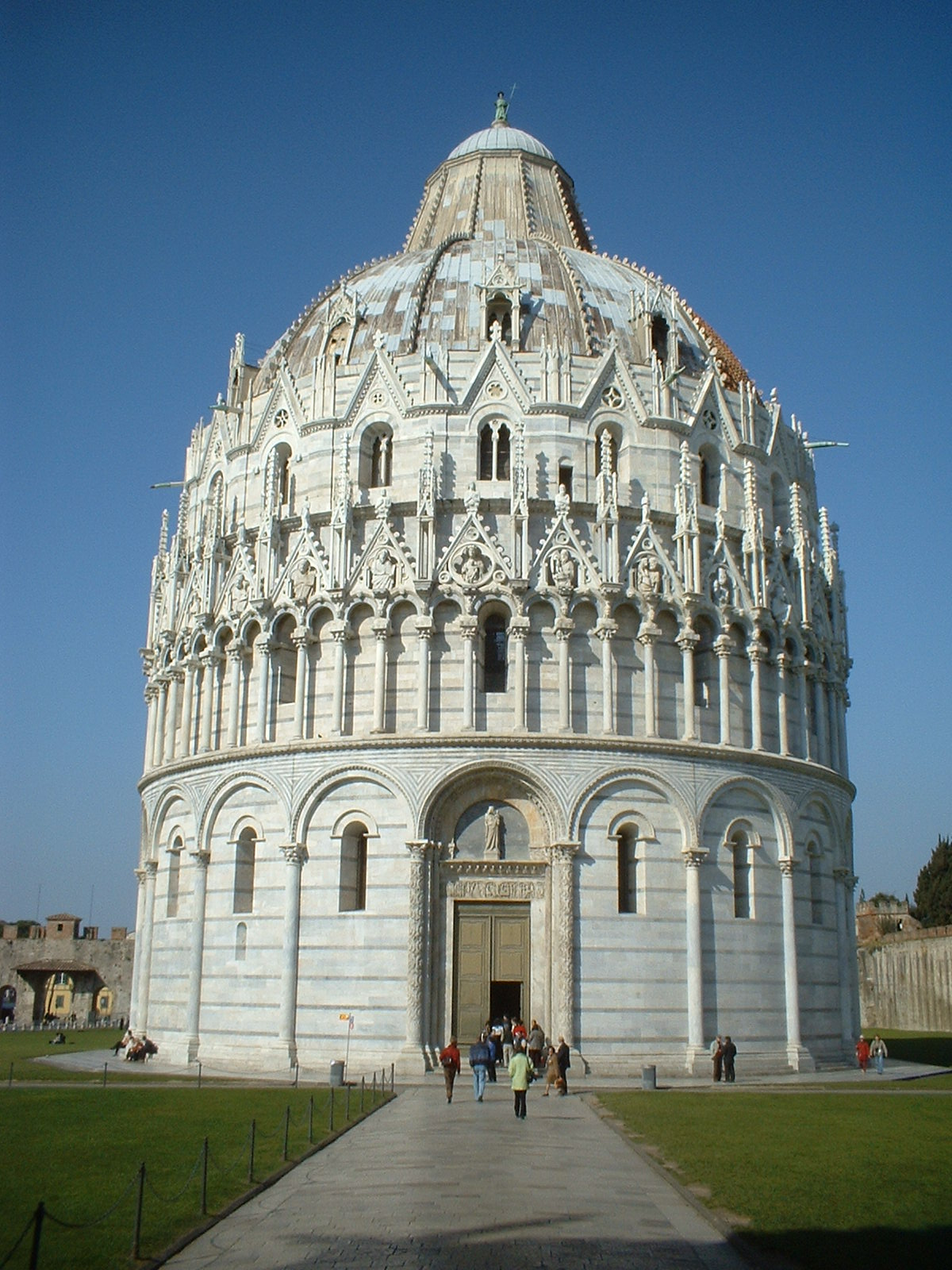 Pisa Baptistry